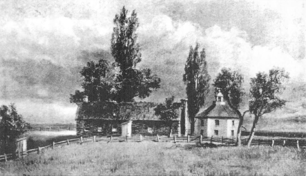 Painting of Milestown School (previously called Armitage School) in East Oak Lane, Philadelphia. Unknown date between 1818 (construction of octagonal building) and 1875 (replacement by new building).